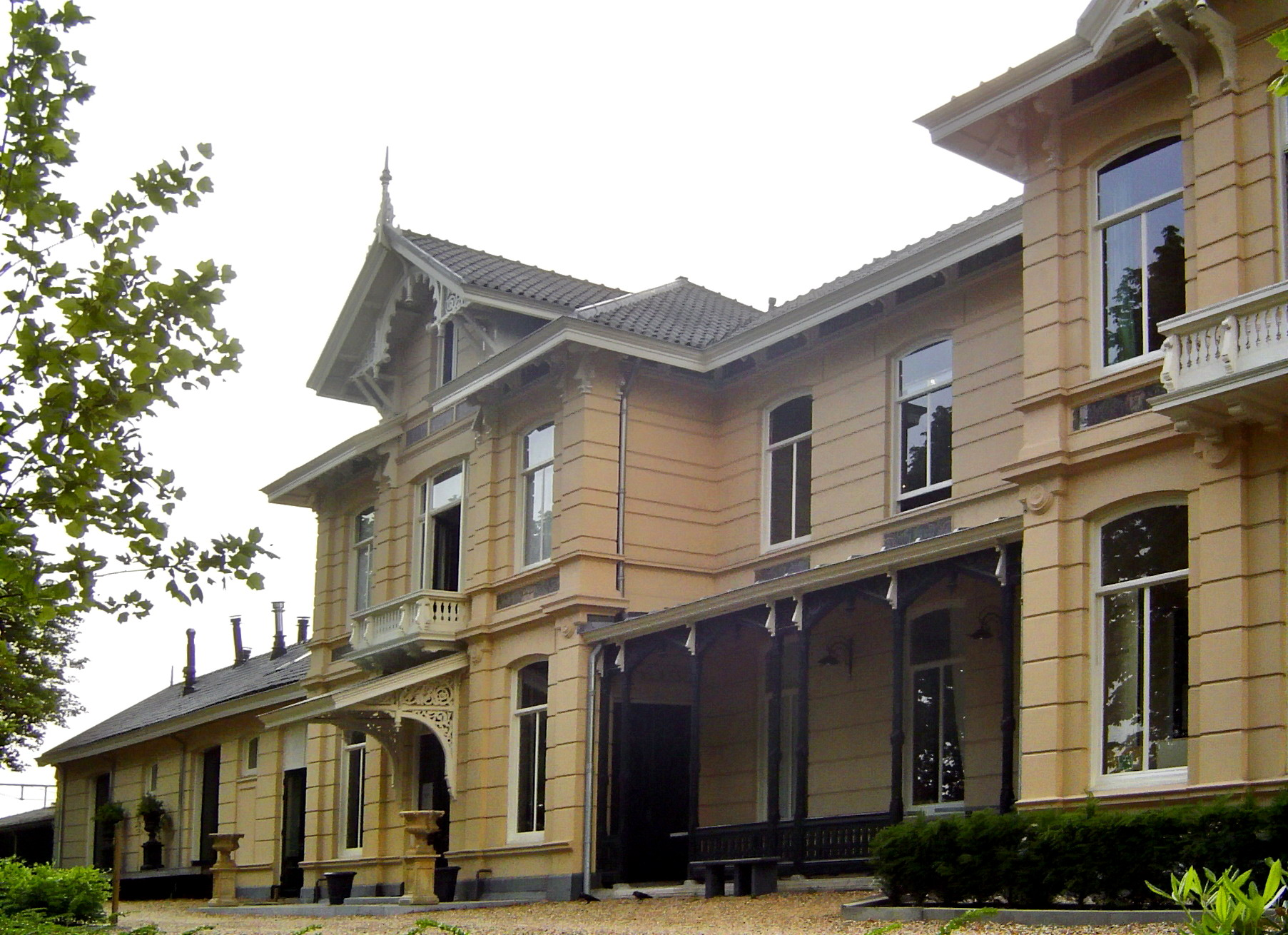 Railway station Vogelenzang, the Netherlands